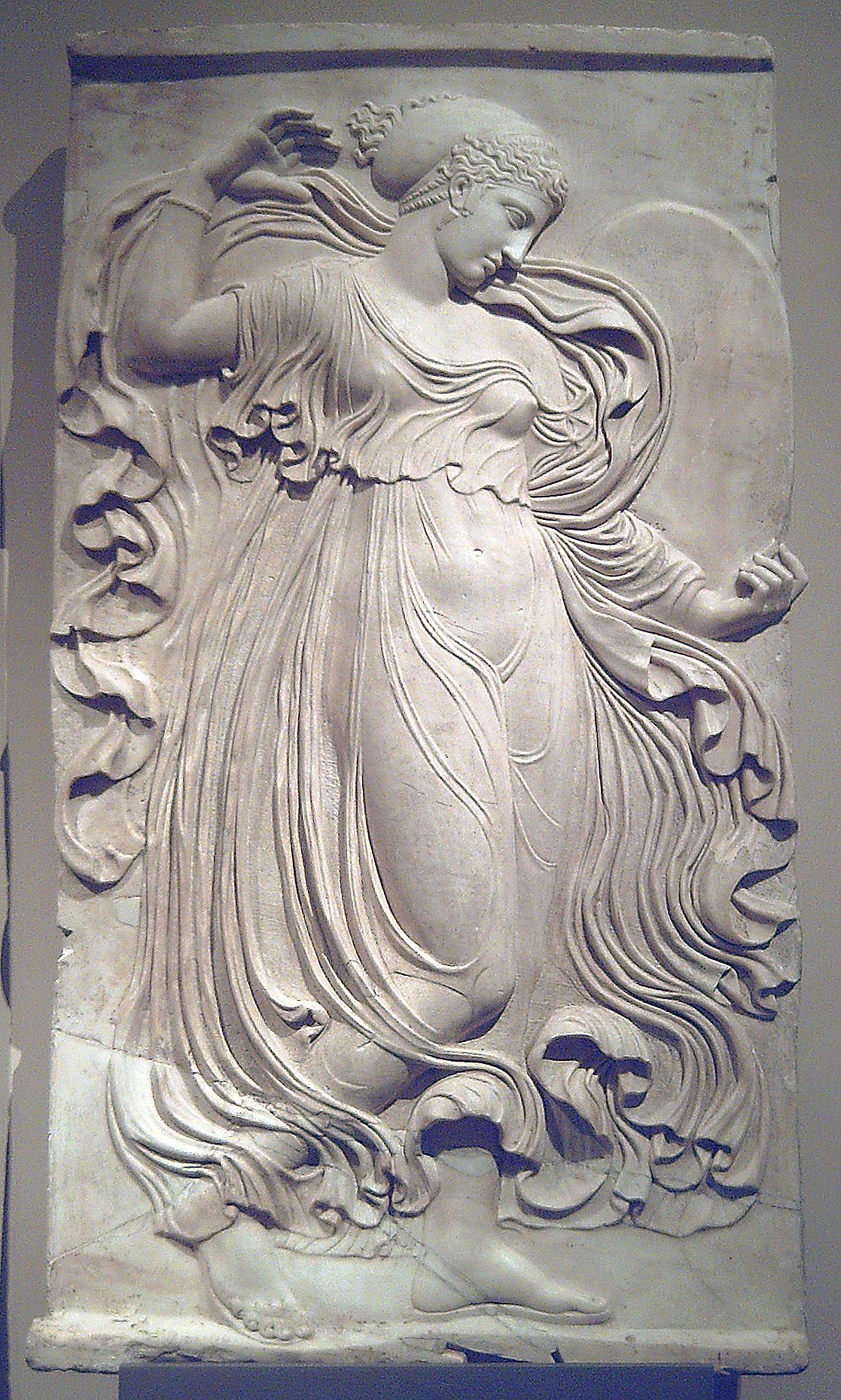 Roman relief showing a dancing maenad.